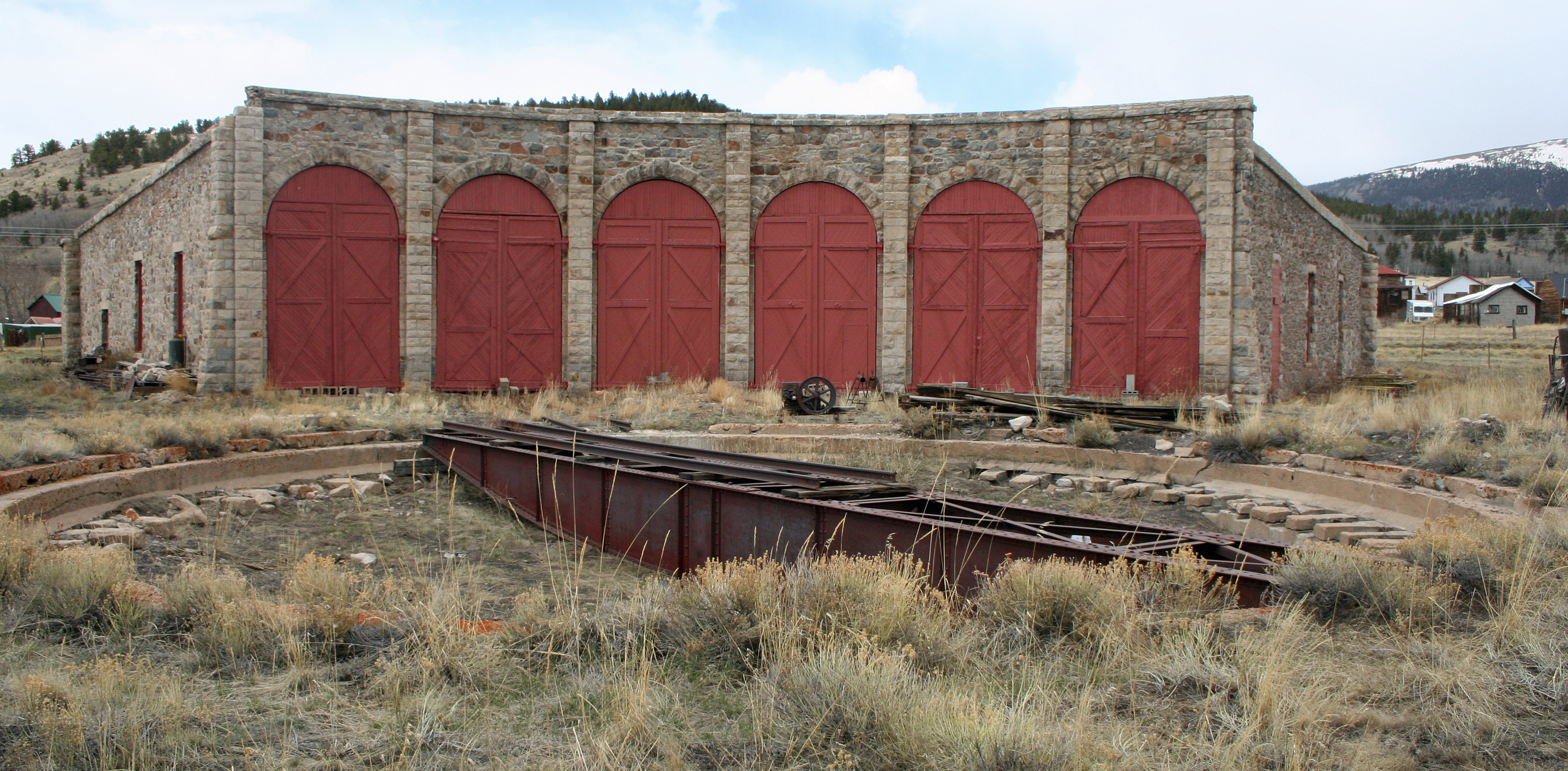 A six-stall, stone roundhouse in Como, Colorado. Built around 1880, the structure served the Denver, South Park and Pacific Railroad.